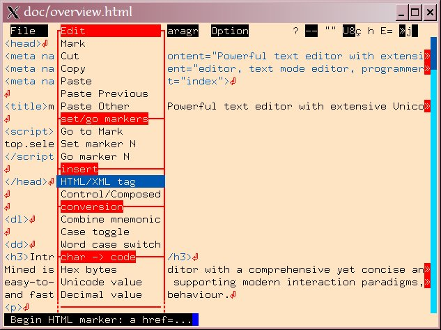 Screenshot taken by the author.